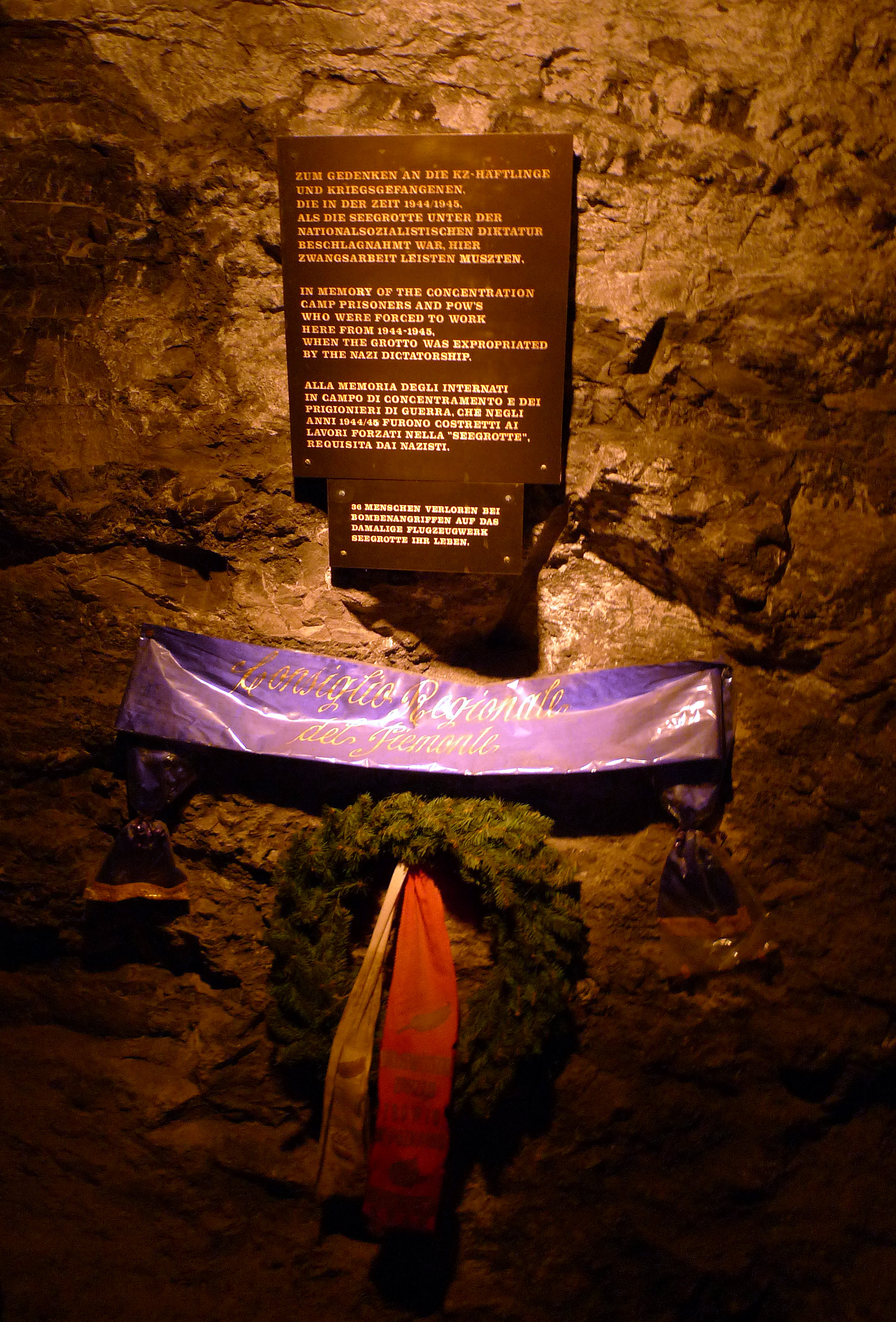 Former mine Seegrotte in Hinterbrühl, Lower Austria - memorial dedicated to victims from WWII.